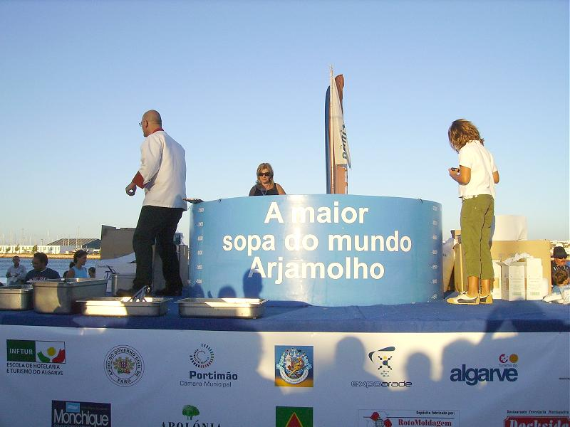 "The world's biggest soup - 2006 Guinness Record (Portimao, Algarve, Portugal)"